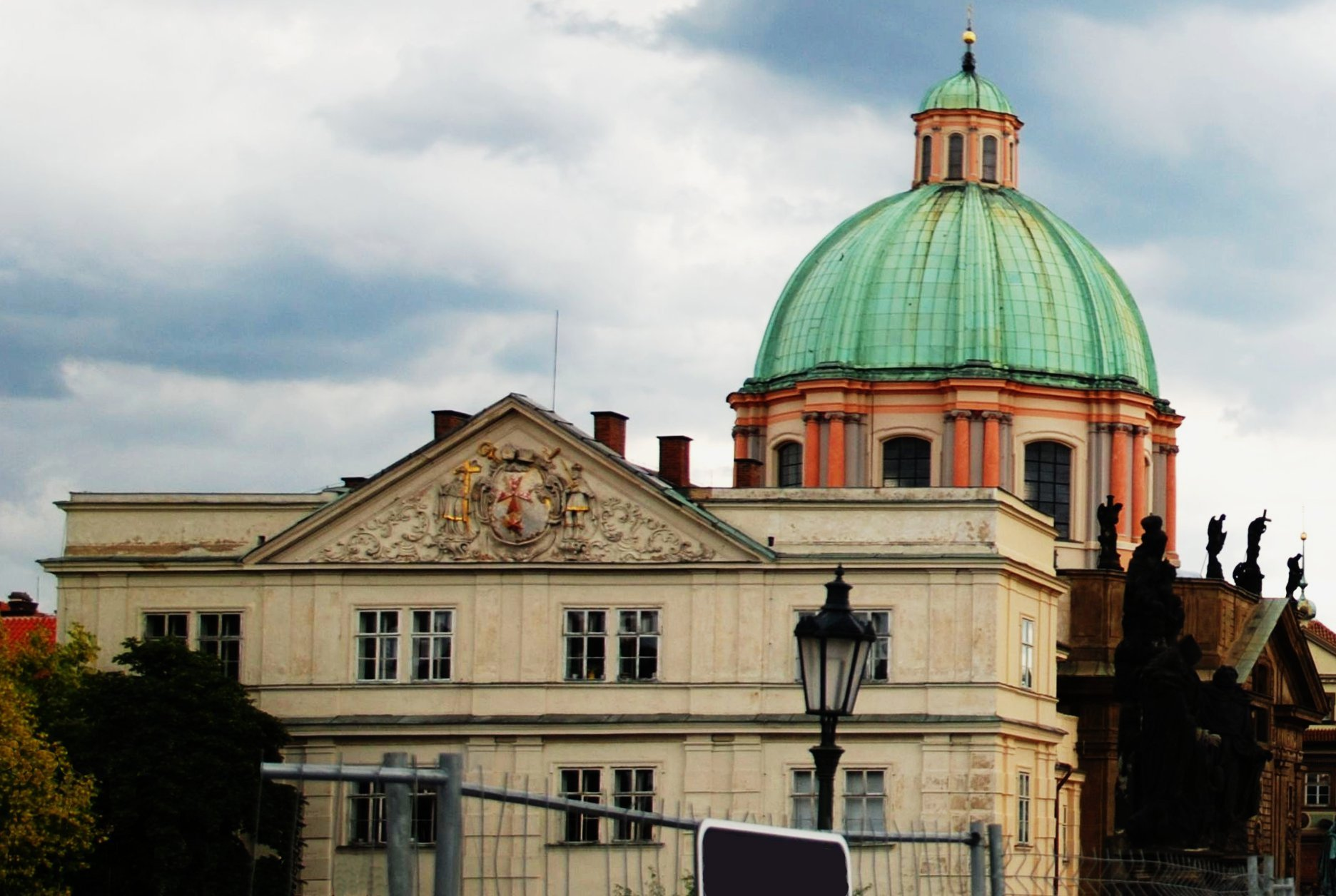 The main seat's building of the Knights of the Cross with the Red Star and St. Francis of Assisi Church of this order, Prague, Czechia; view from the Charles Bridge